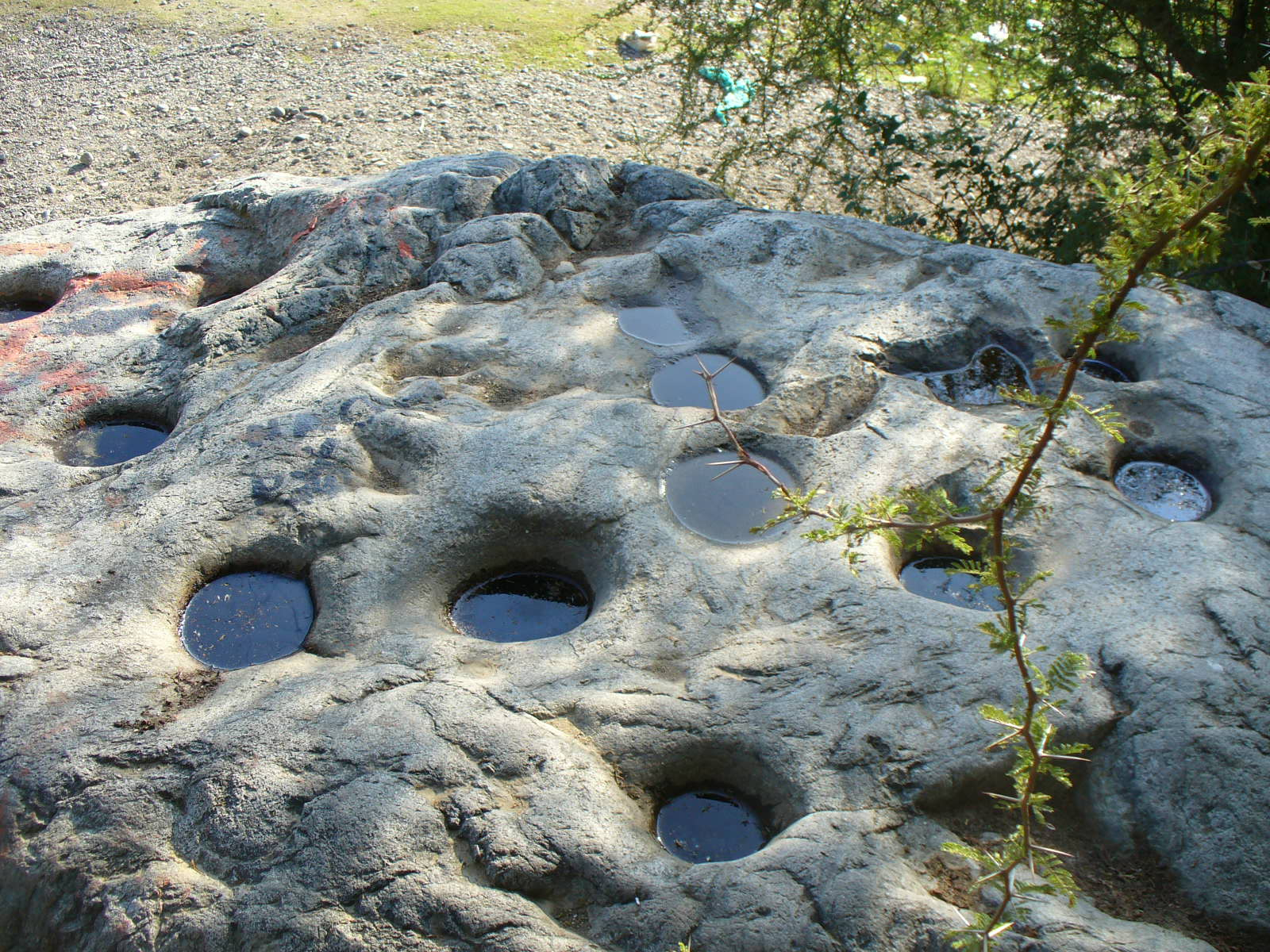 Tacita-Boulder at the banks of river Puangue, in Curacaví, Chile. After a rainfall.